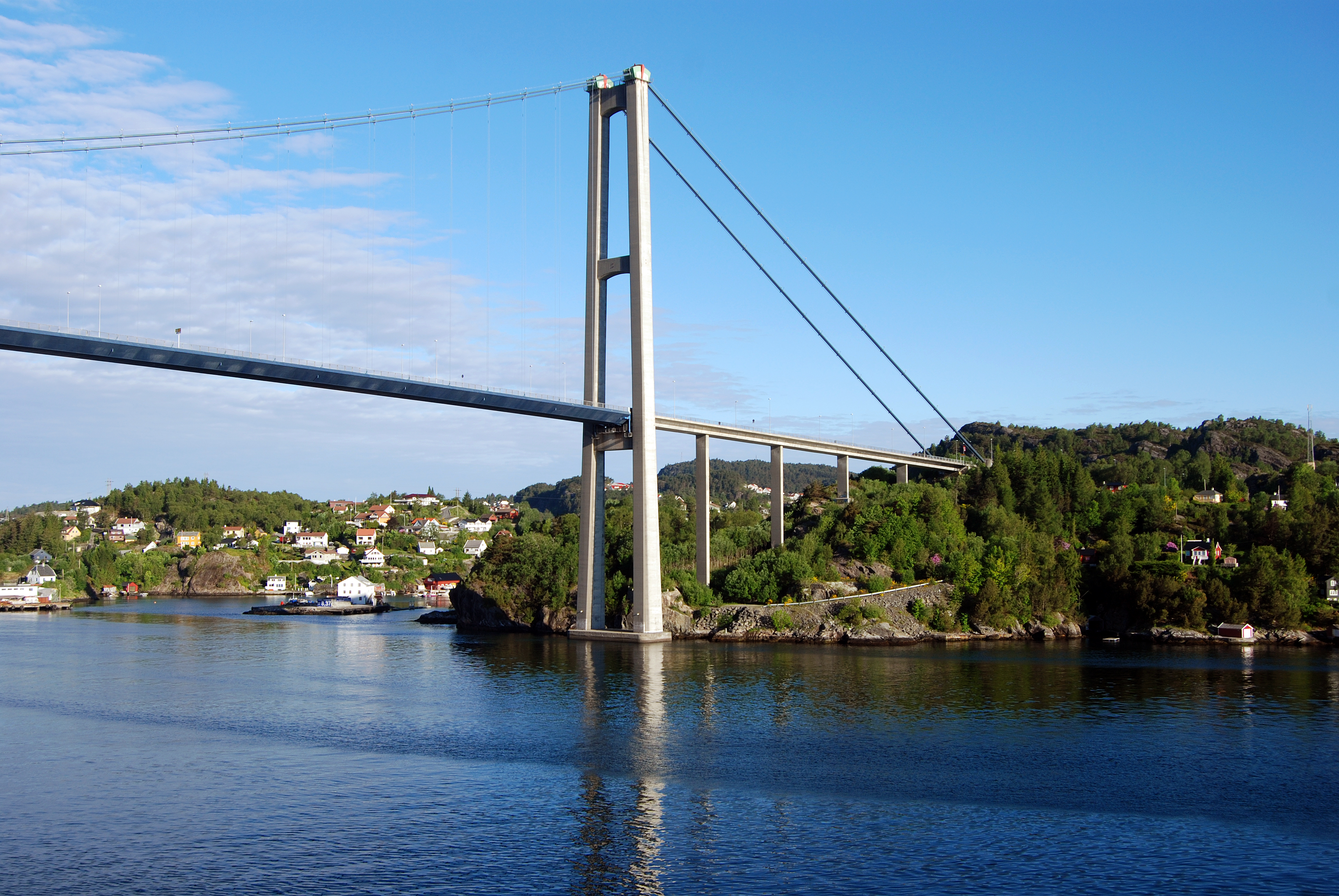 The Askøy Bridge (Askøybroen), a suspension bridge which crosses Byfjorden between Bergen and Askøy in Hordaland and nearing the inner part of Bergen harbor